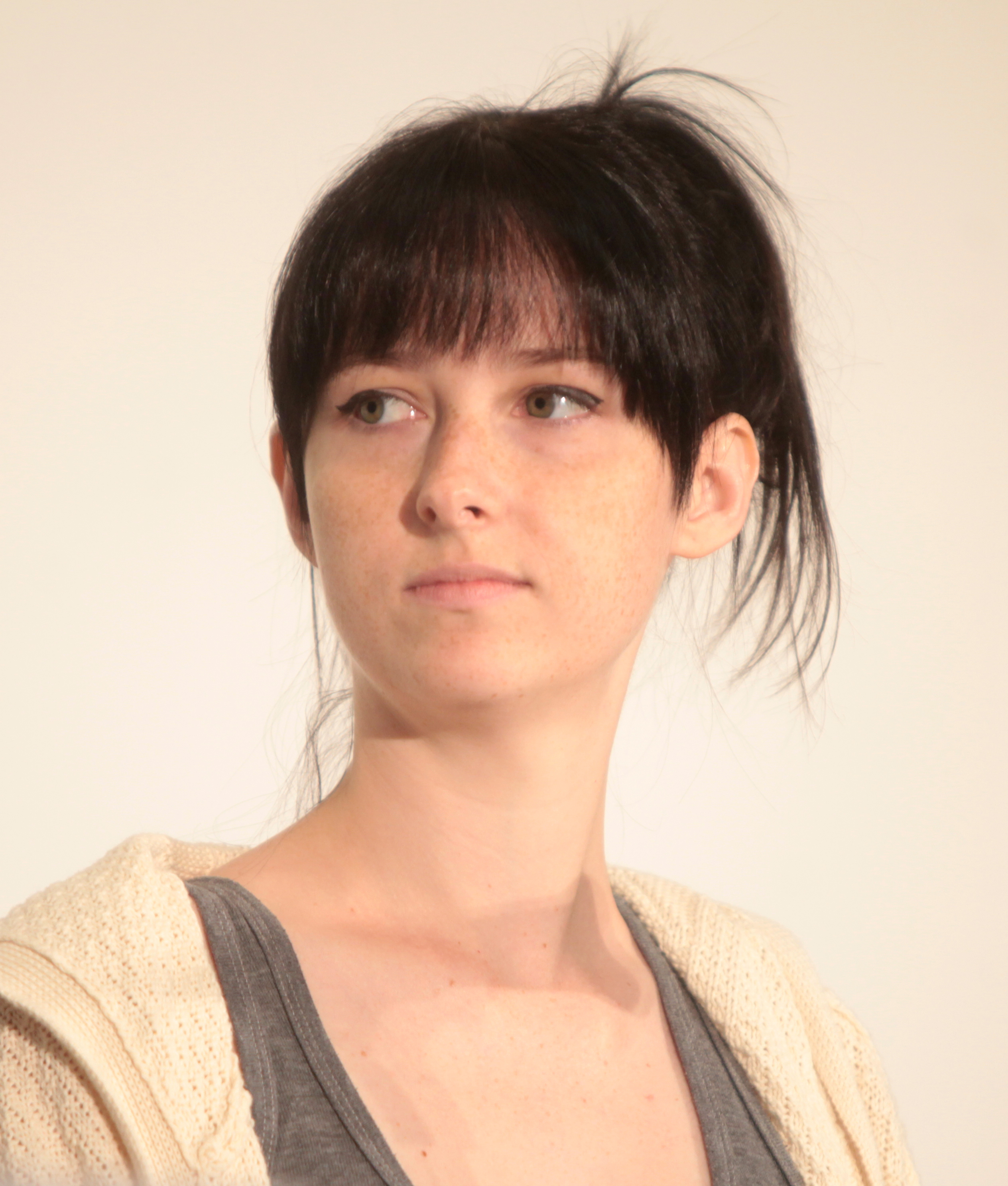 Tessa Violet speaking at the 2014 VidCon on June 28, 2014.